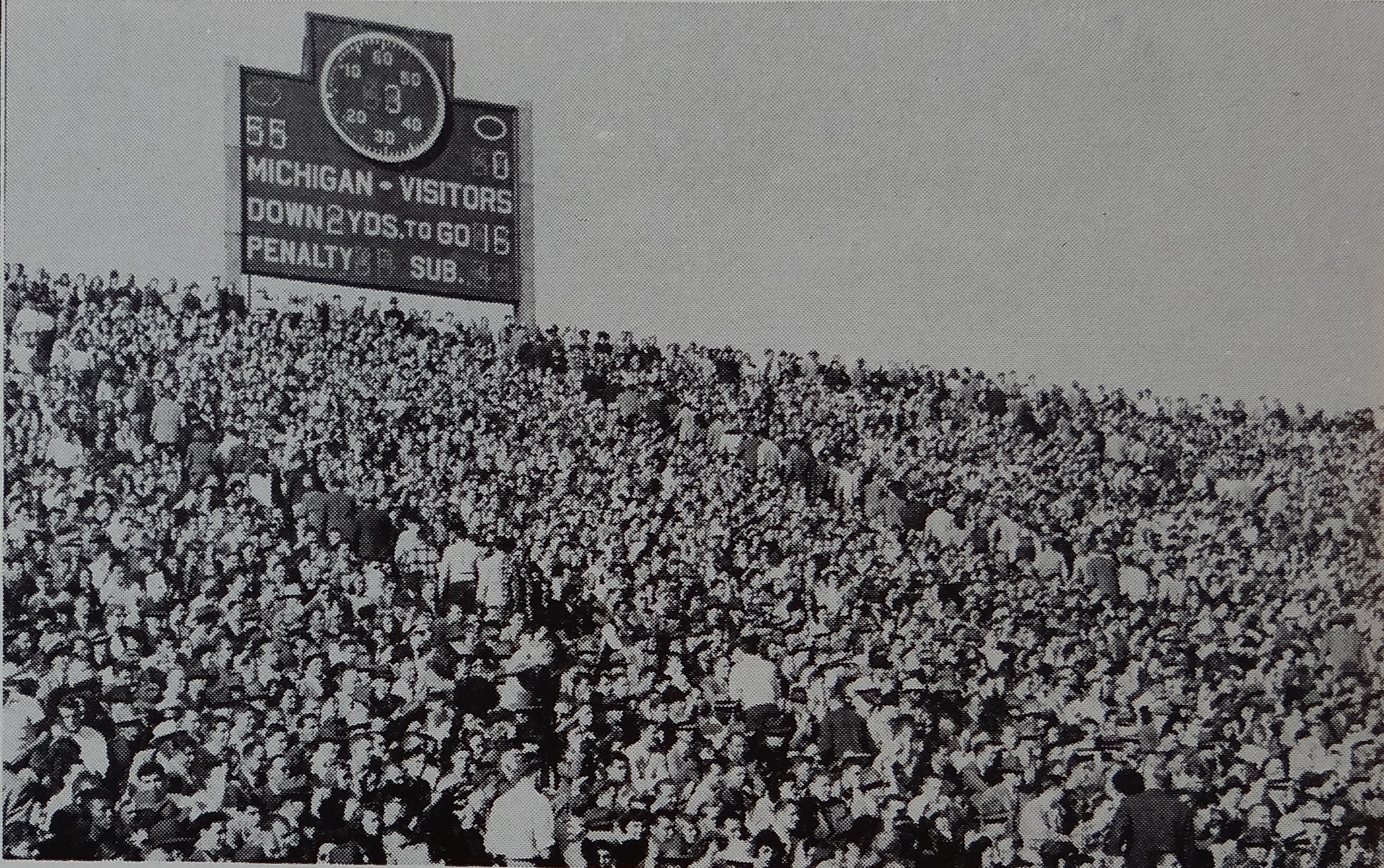 Photograph of the crowd and scoreboard at Michigan Stadium during Michigan's 55-0 victory over Michigan State in Sept. 1947 Photograph of the crowd and scoreboard at Michigan Stadium during Michigan's 55-0 victory over Michigan State in Sept. 1947